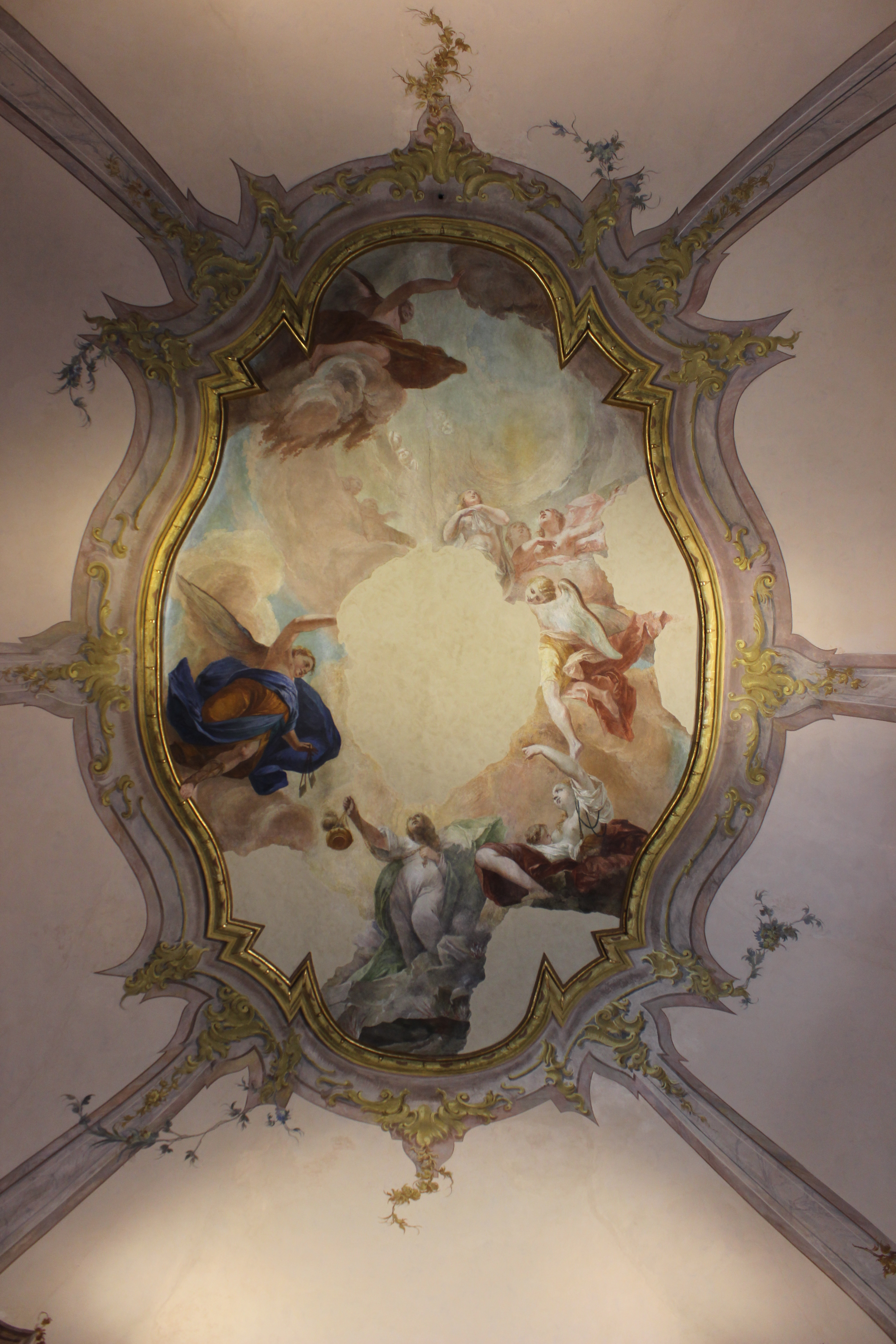 This is a photo of a monument which is part of cultural heritage of Italy.